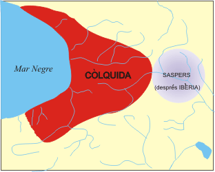 Location of Colchis, ancient Georgian, state kingdom and region in the Western Georgia (Caucasus region). In Greek mythology is the destination of the Argonauts.